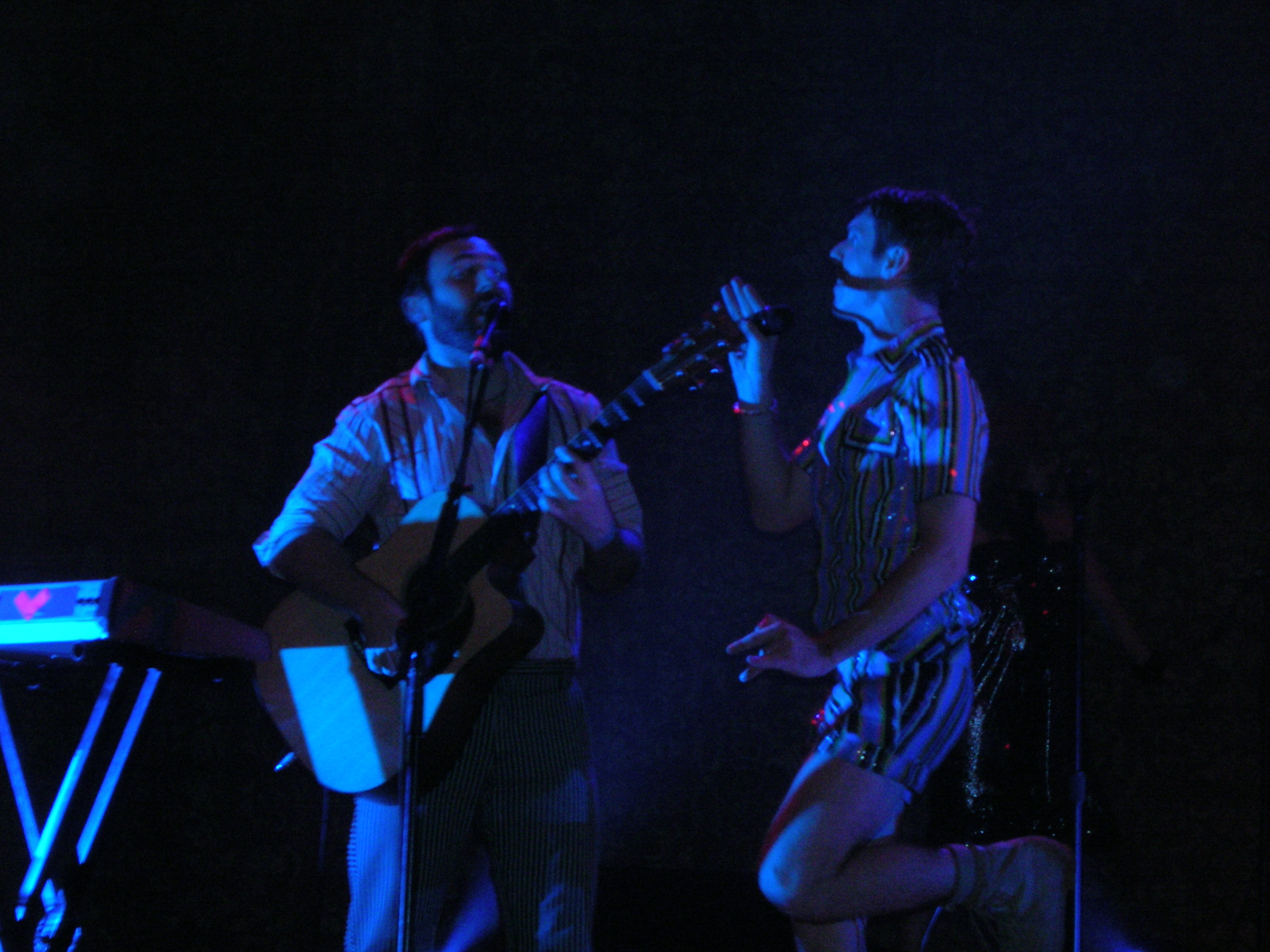 Scissor sisters on tour 2007. Performed at St. Louis. Picture taken by Kyle Flood.